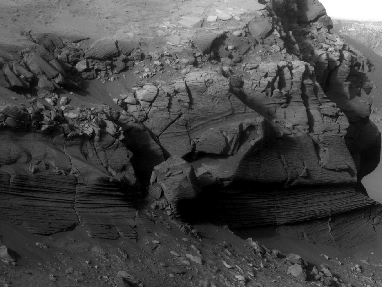 This Mars Exploration Rover Opportunity Pancam "super resolution" mosaic of the approximately 6 m (20 foot) high cliff face of the Cape Verde promontory was taken by the rover from inside Victoria Crater, during the rover's descent into Duck Bay. Super-resolution is an imaging technique which utilizes information from multiple pictures of the same target in order to generate an image with a higher resolution than any of the individual images. Cape Verde is a geologically rich outcrop and is teaching scientists about how rocks at Victoria crater were modified since they were deposited long ago. This image complements super resolution mosaics obtained at Cape St. Mary and Cape St. Vincent and is consistent with the hypothesis that Victoria crater is located in the middle of what used to be an ancient sand dune field. Many rover team scientists are hoping to be able to eventually drive the rover closer to these layered rocks in the hopes of measuring their chemistry and mineralogy. This is a Mars Exploration Rover Opportunity Panoramic Camera image mosaic acquired on sols 1342 and 1356 (November 2 and 17, 2007), and was constructed from a mathematical combination of 64 different blue filter (480 nm) images.